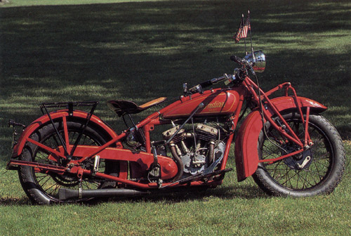 inuyama